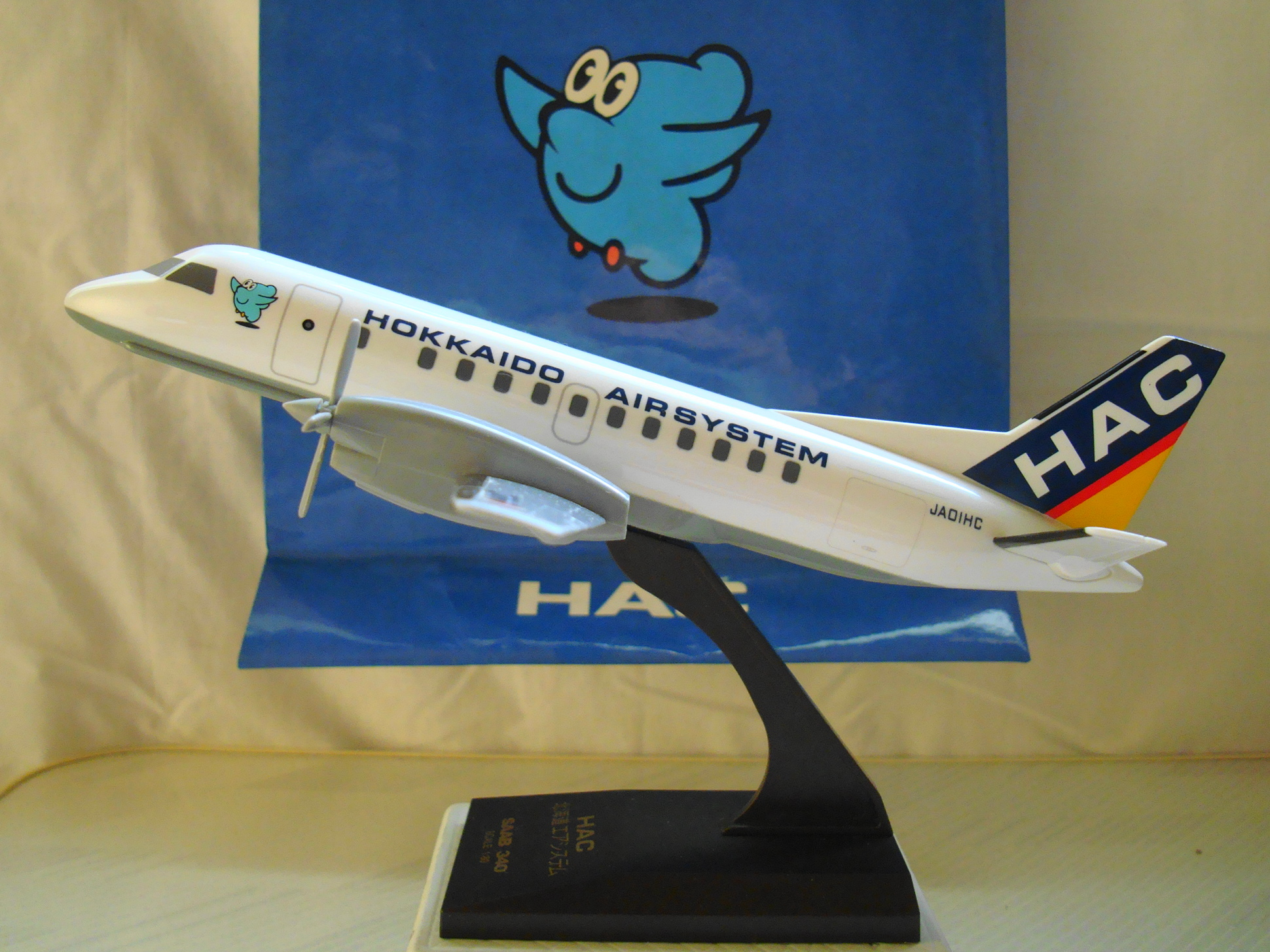 Hokkaido Air System Saab 340B-WT JA01HC Die-cast toy 1:80 scale